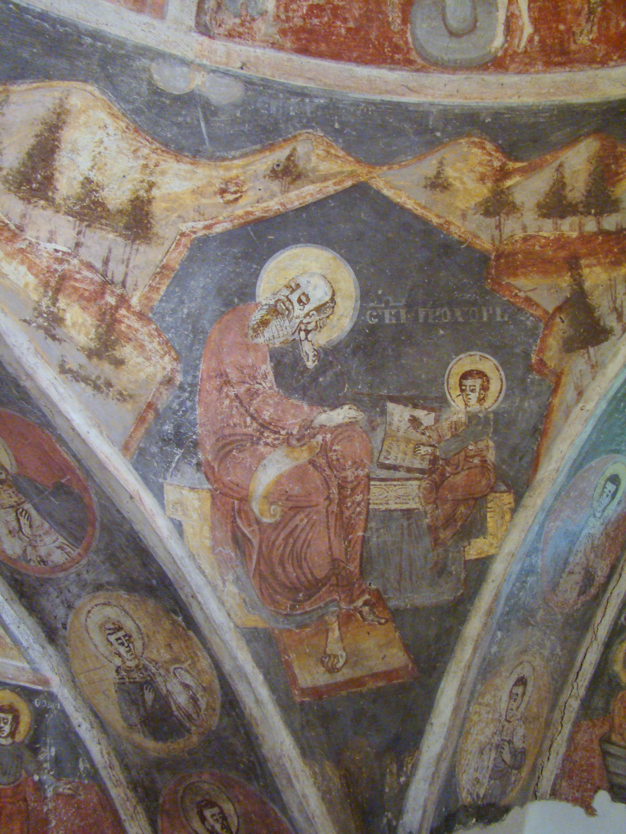 Saint Paraskeva's church in Mesentea, Alba county, Romania